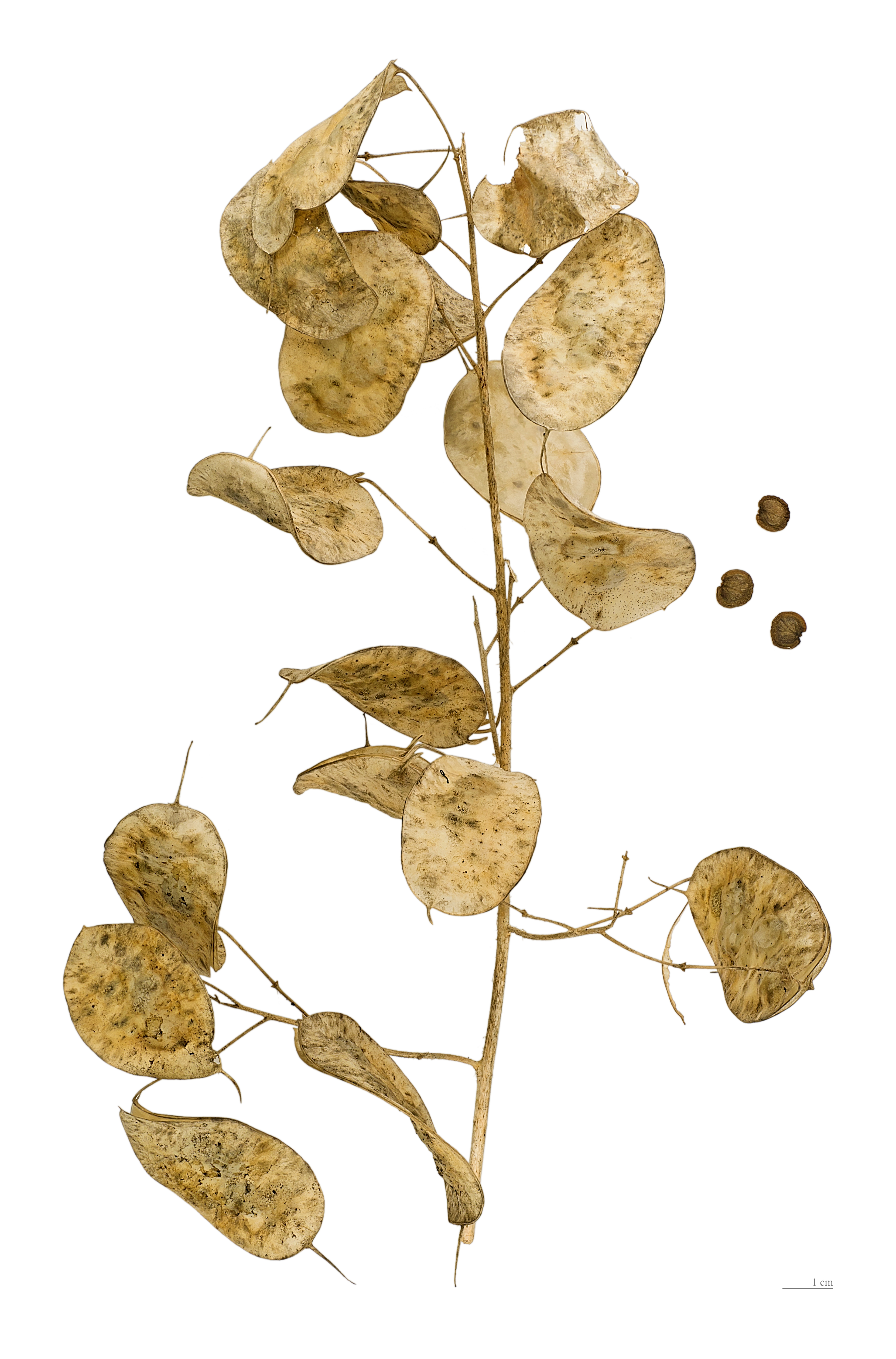 Annual honesty, siliques and seeds